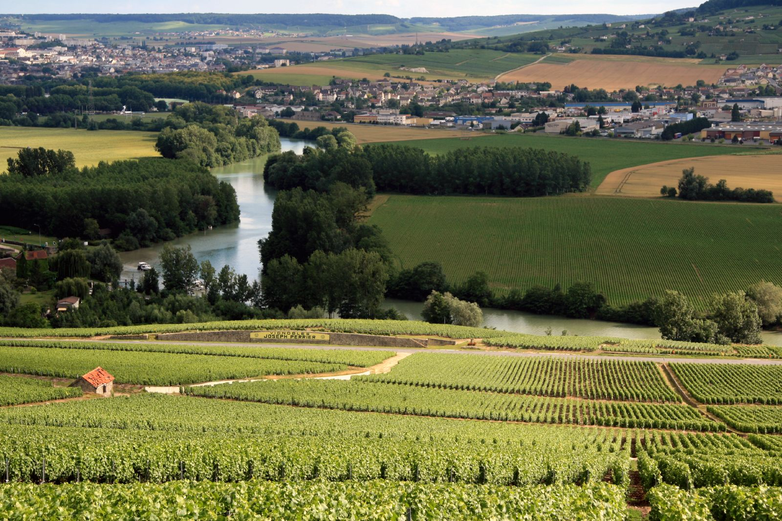 Vineyards in the Champagne wine region of France. The vineyards to the far left in the foreground (including the Vignobles Joseph Perrier sign on the stone wall) are located in the Hautvillers commune, while those to the right are located in the Cumières commune. The road going right-left in the picture is the D1 road. The small road running down the hill by the small house and exiting on the D1 at the stone wall runs exactly along the commune border between Hautvillers and Cumières. The Marne river is also visible, and just at the left edge of the picture the Canal lateral á la Marne runs into Marne, through a lock that is just barely visible here. The land immediately beyond the Marne river is located in the Mardeuil commune, and in the background, the western parts of Épernay are visible in the background.